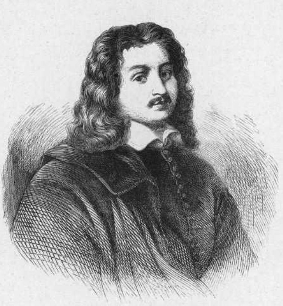 Nicolaes Berchem's Portrait - 17th Century - Engraving